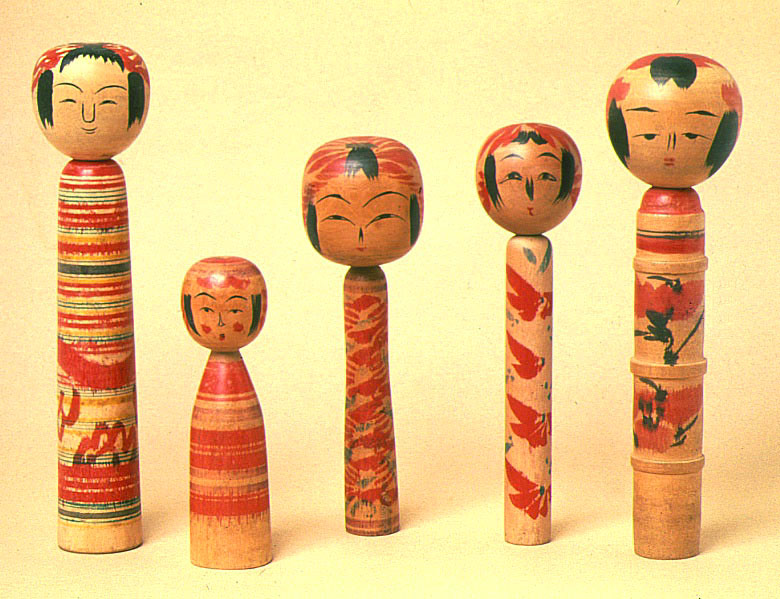 Kokeshi